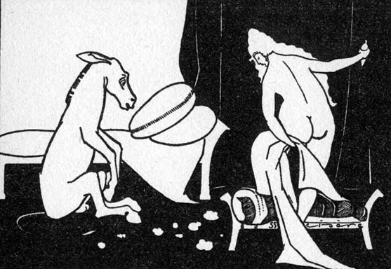 Illustration from The Golden Ass.